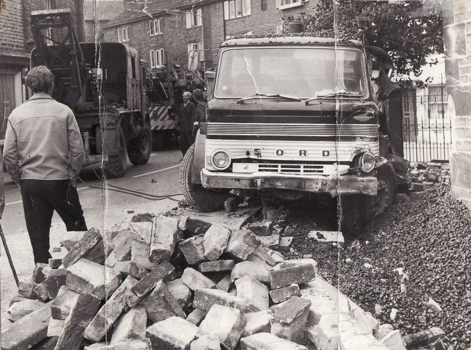 In the days before Hayfield's bypass, this lorry narrowly missed the parish church during an accident in 1974.